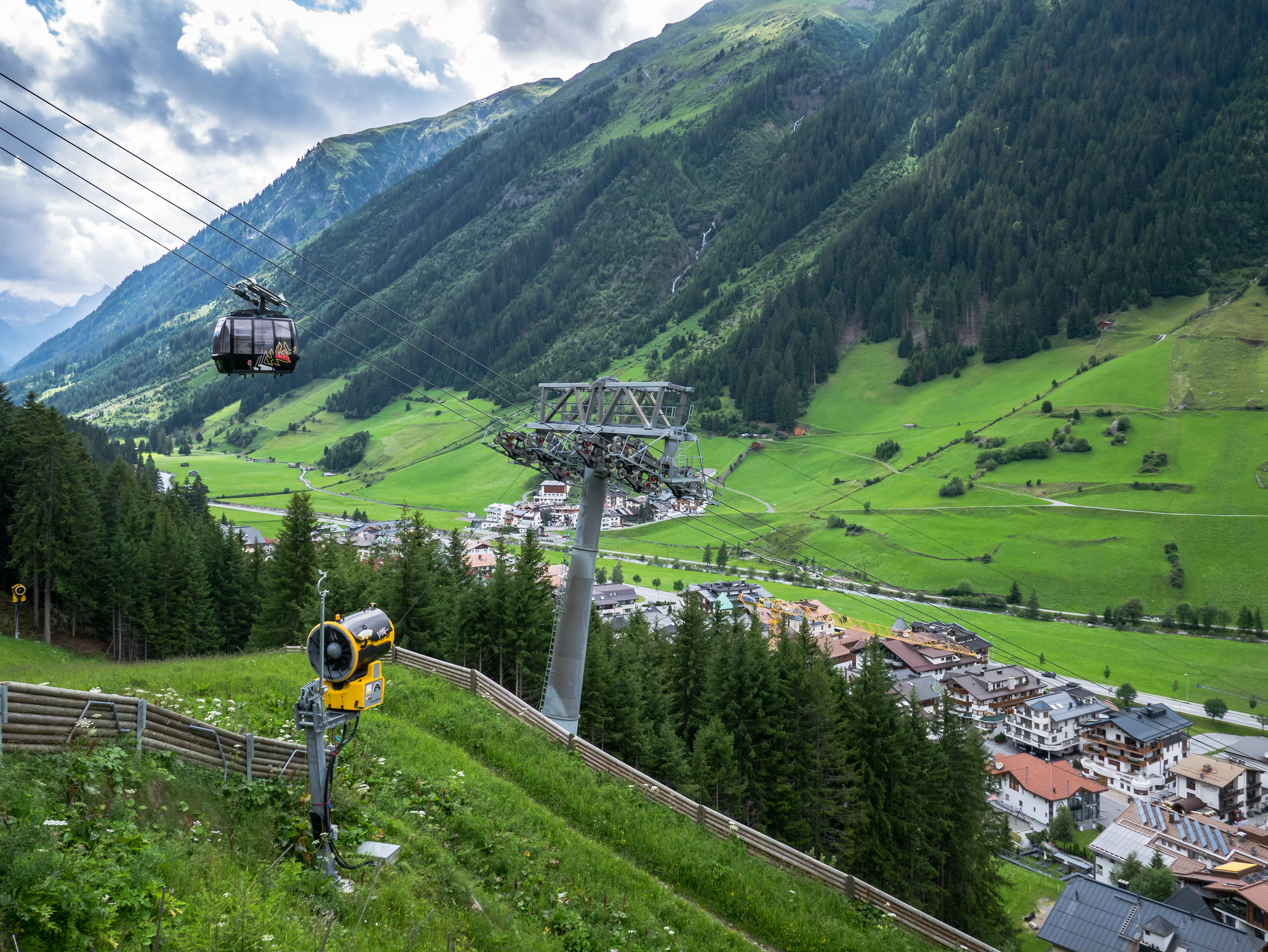 Silvrettabahn cableway in Ischgl. Paznaun, Tyrol, Austria